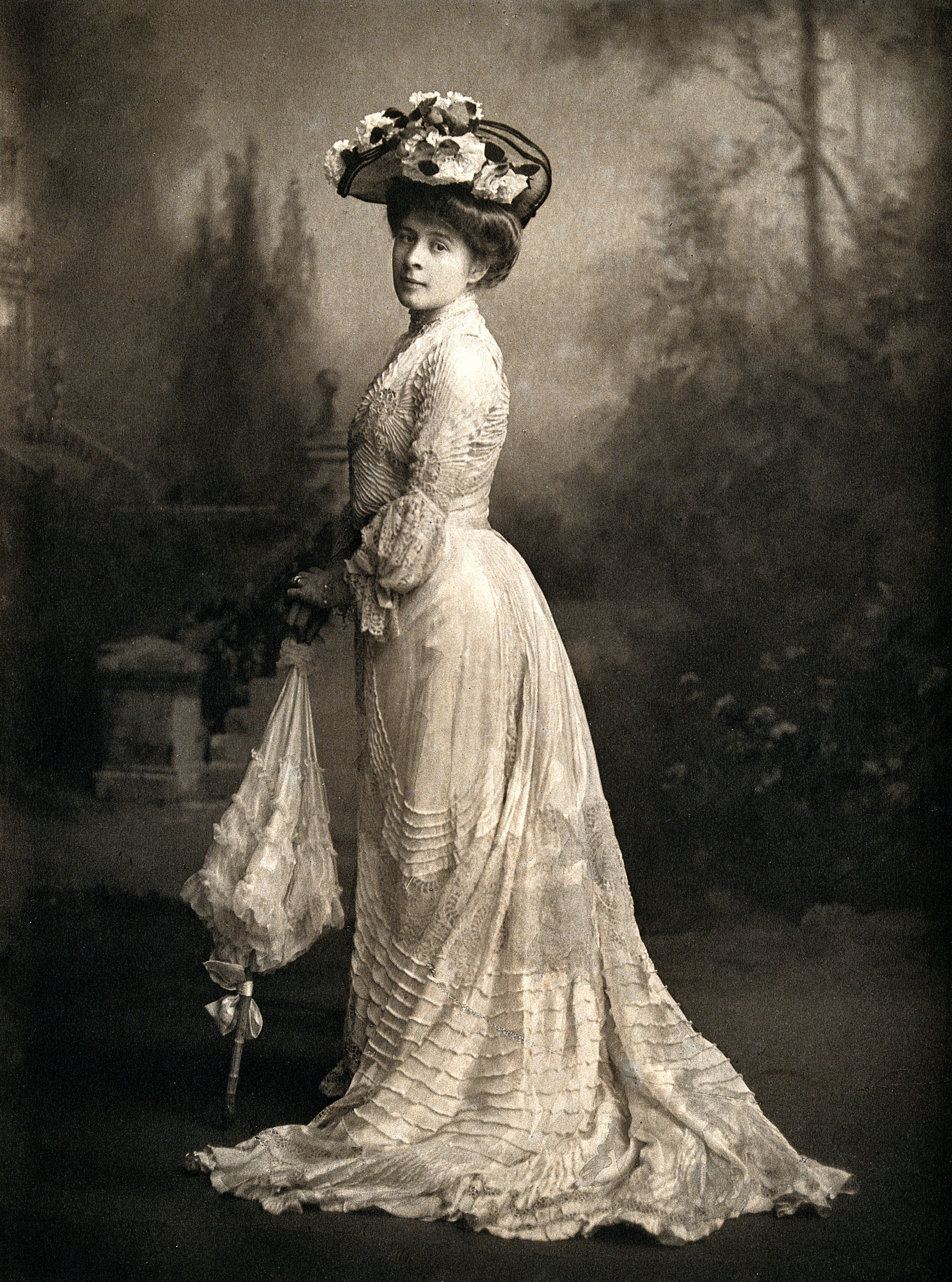 Gwendoline Syrie Maud Wellcome (née Barnardo), Syrie Maugham. Photograph by Lafayette Ltd. Iconographic Collections Keywords: portrait photographs